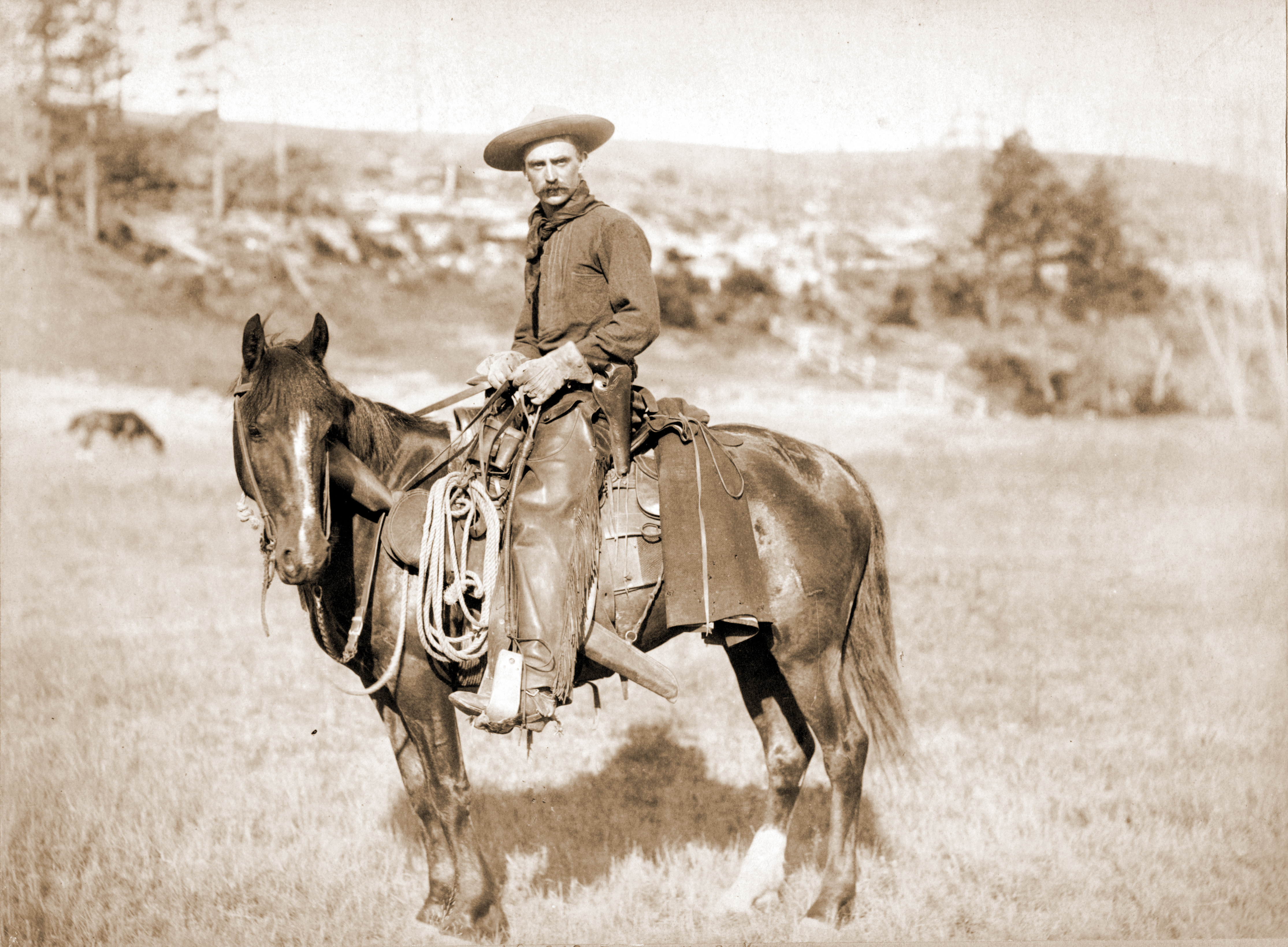 Photograph shows side view of a cowboy on a horse, looking towards the camera.